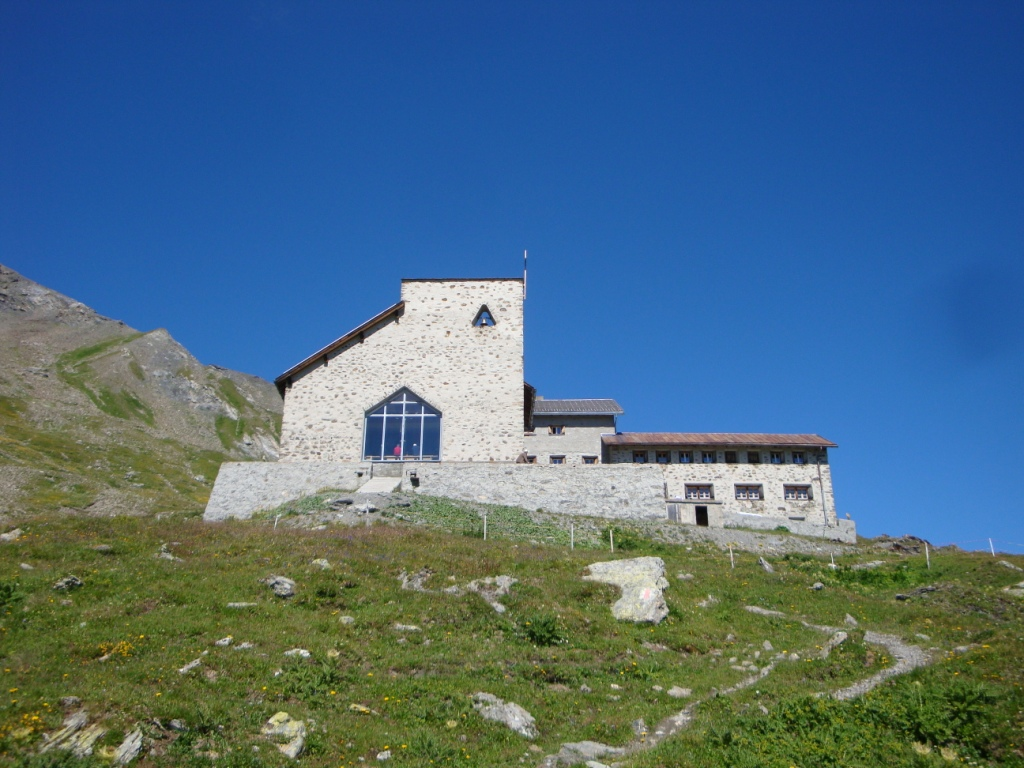 Front view of Ziteil, Salouf, Grison, Switzerland